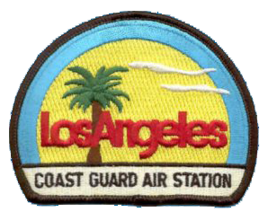 former patch of CGAS los Angeles